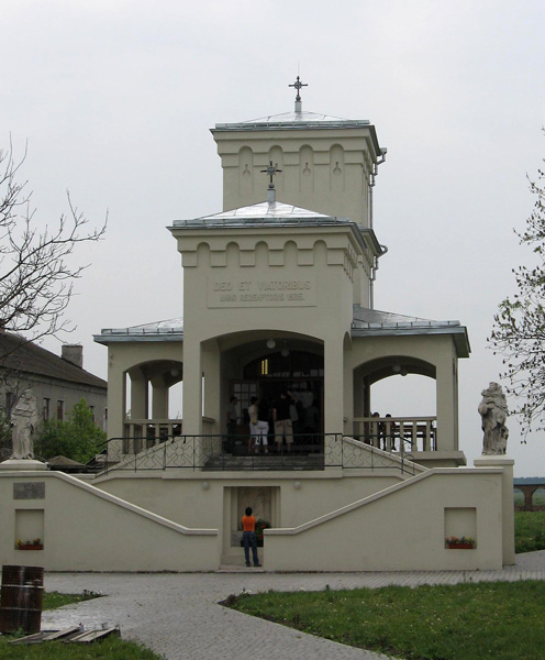 The chapel of saint Valentine, Belz, 1935. Today in the chapel there is a souvenir point and the copy of Black Madonna of Częstochowa.